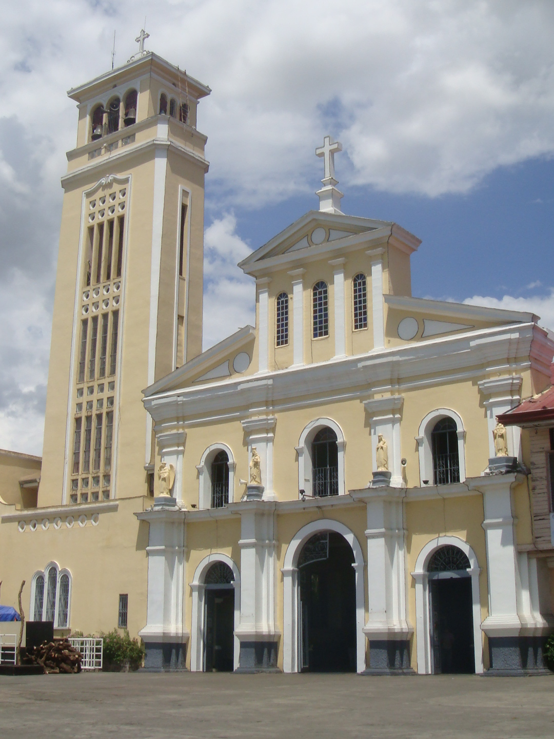 2016 Our Lady of Manaoag (Interior and Exterior of the Minor Basilica and Shrine of Our Lady of the Rosary of Manaoag has been granted a SPECIAL BOND OF AFFINITY with the Papal Basilica of Saint Mary Major in Rome on July 22, 2011; on April 21, 2016 as Sanctuary, Blessed Margaret Pope grants Manaoag shrine the title of ‘minor basilica’ February 17, 2015, in List of barangays in Pangasinan, Barangays of Pangasinan, Pangasinan Province, Manaoag, Pangasinan, April 13, 2016 is the Fiesta, Barangay Poblacion, Manaoag, Pangasinan, Pangasinan Province).